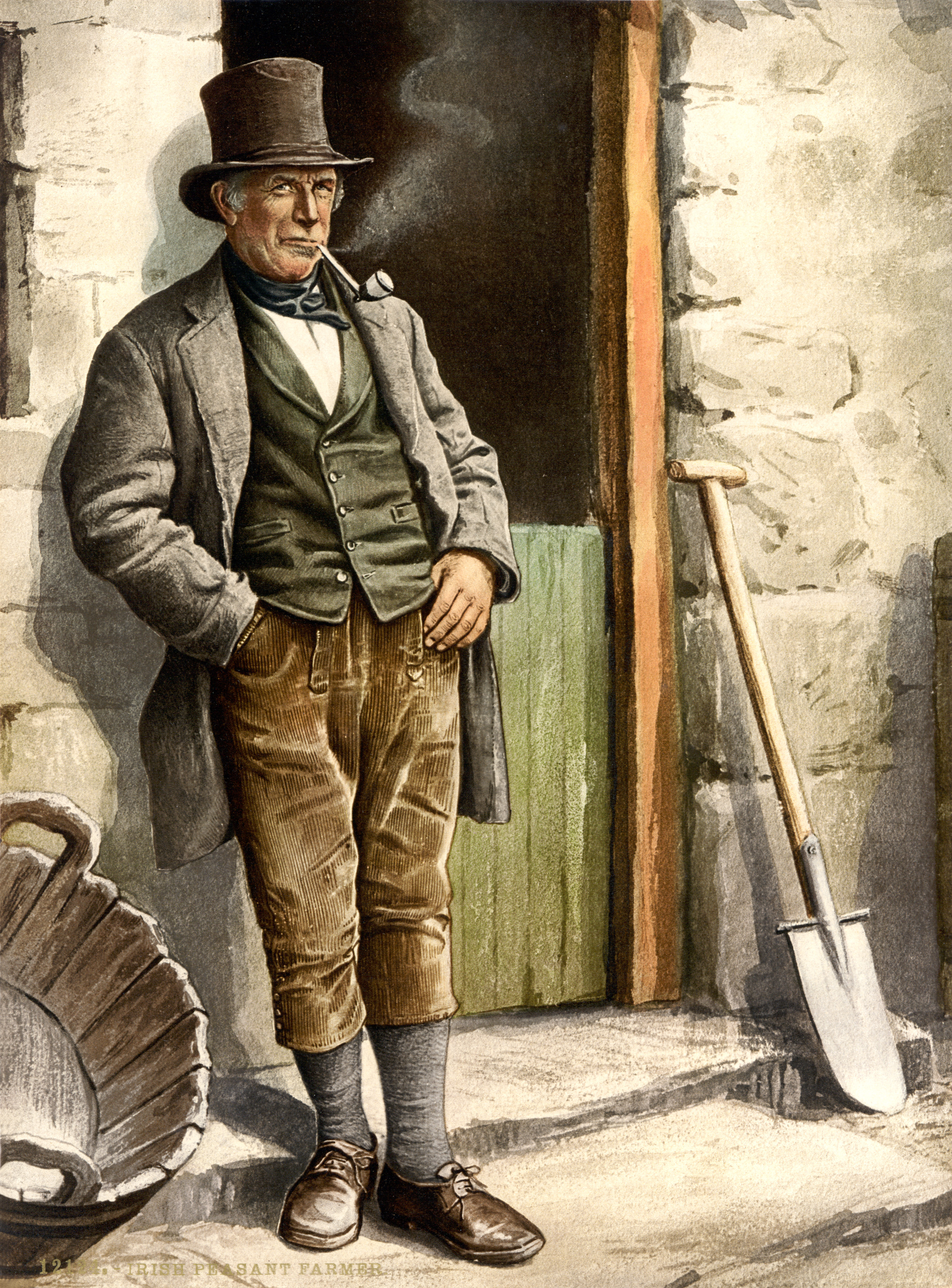 Male Irish peasant farmer, standing in doorway, smoking a pipe. 1 photomechanical print : photochrom, color.